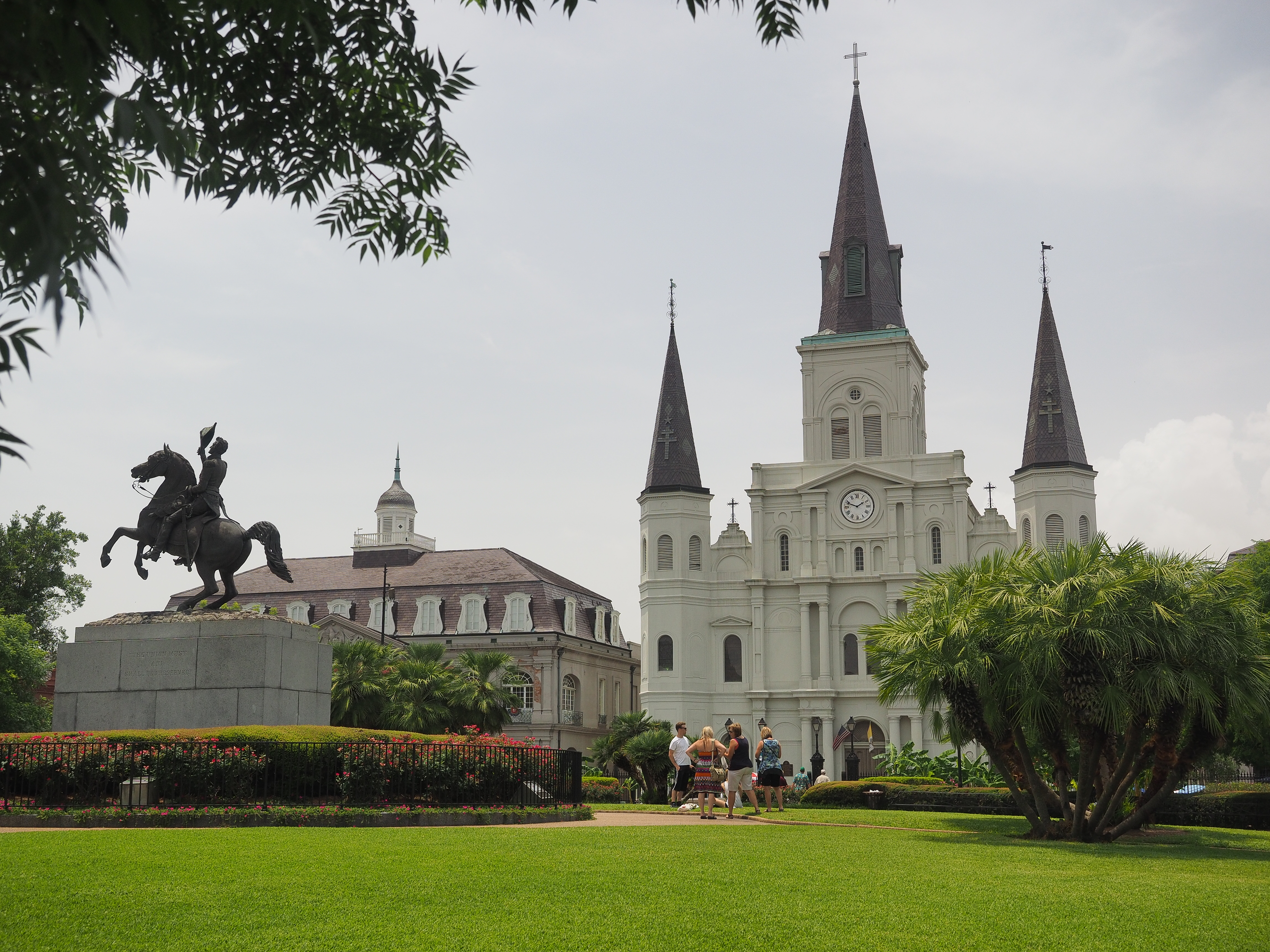 St. Louis Cathedral in the French Quarter, New Orleans, LA. On this trip I am challenging myself not to perform any post processing. I want to see how good I can get composition and jpeg settings in-camera. This series will be straight-out-of-camera...sooc.